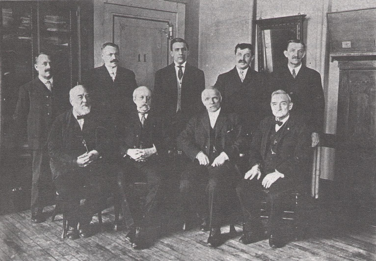 Photograph of the engravers of the Philadelphia Mint. Top row (left to right): Charles Greth, John Beally, Harry Blythe, Charles Conway, James Blythe. Bottom row (left to right): William Key, Charles E. Barber, George T. Morgan, Unknown.